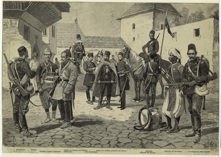 Turkish soldiers and military officers.